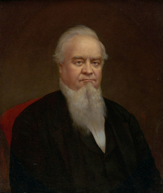 Portrait of Edwin B. Crocker, who founded the Crocker Art Museum in Sacramento, California. The Crocker Art Museum, E.B. Crocker Collection holds the original. Stephen W. Shaw painted over 200 portraits of prominent San Francisco businessmen from 1851 to 1900.